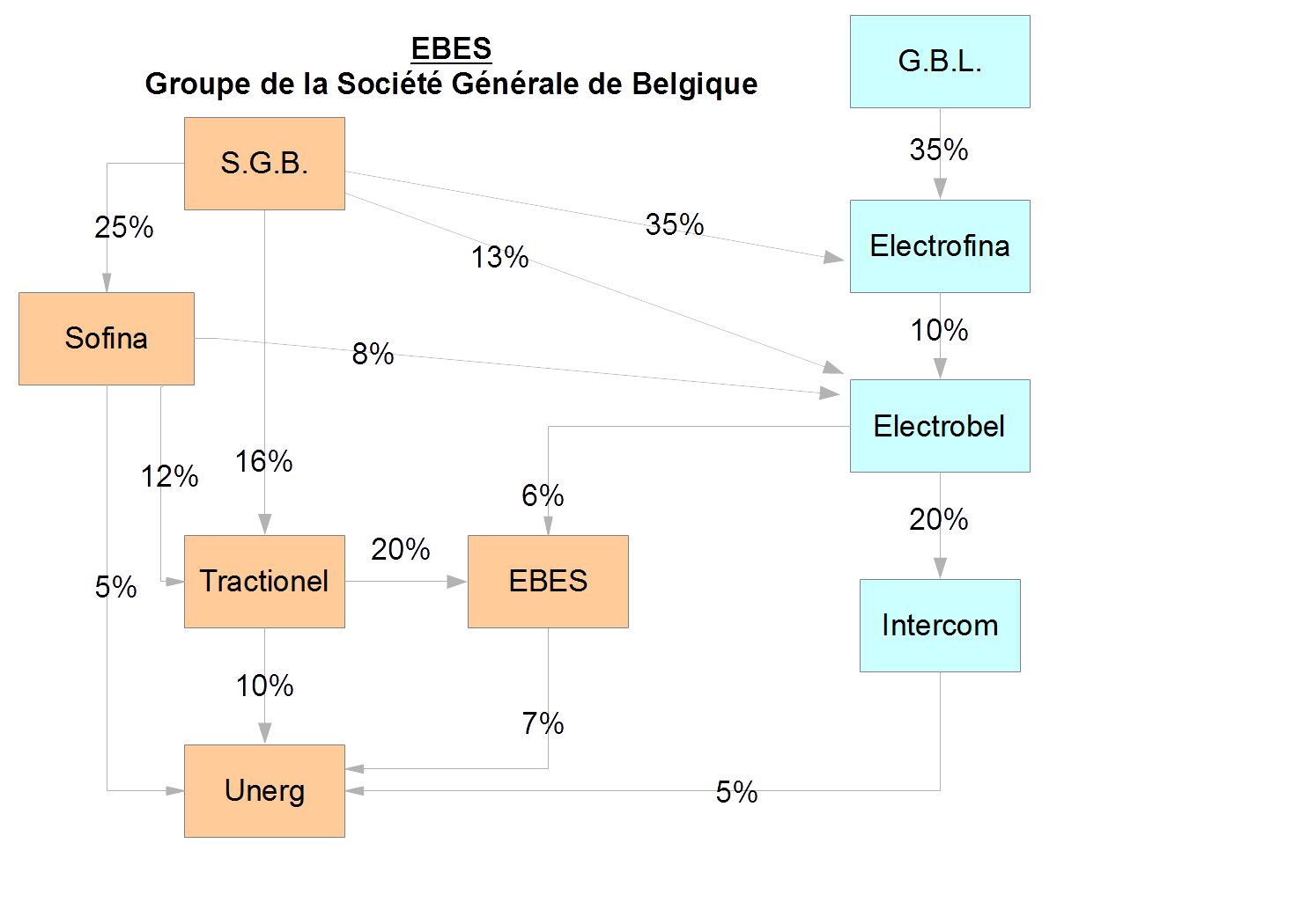 Simplified organization chart from EBES